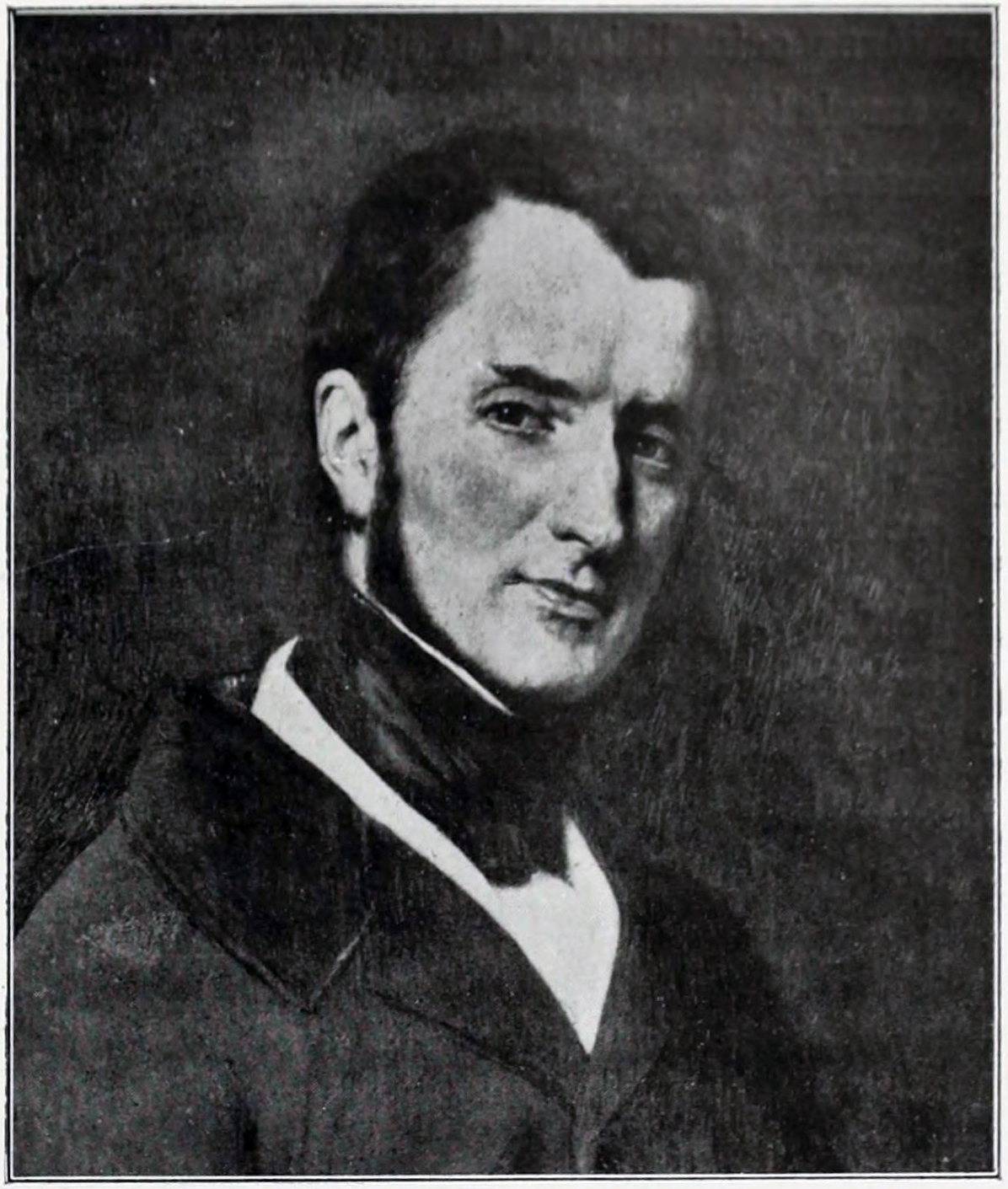 Detail of a portrait of Henri Duponchel (oil on canvas). Original: Paris, Musée de l'Opéra